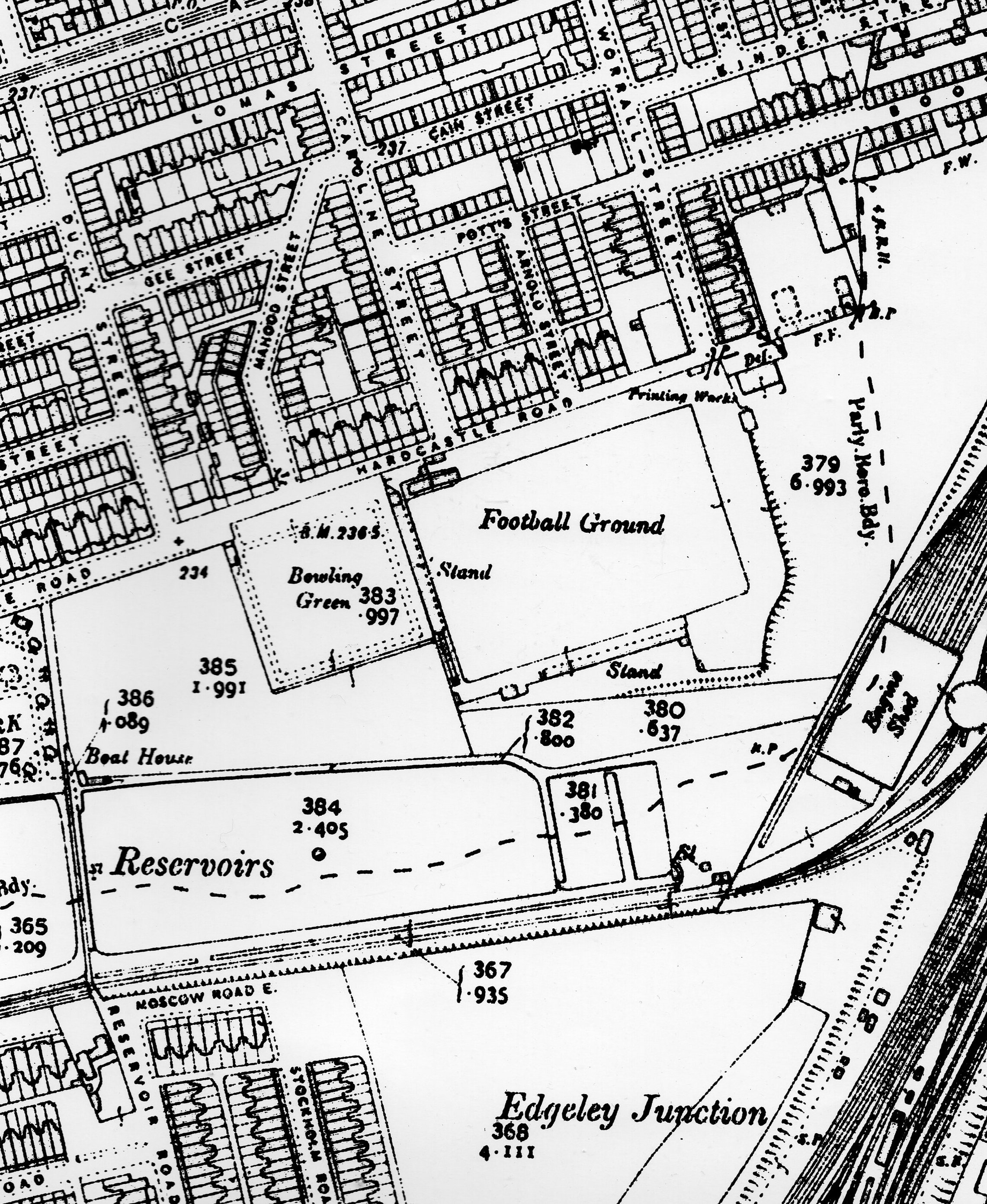 This is a scanned copy of the 1910 Ordnance survey of Edgeley, Stockport and pictures Edgeley Park Football Stadium, residential houses and a train line